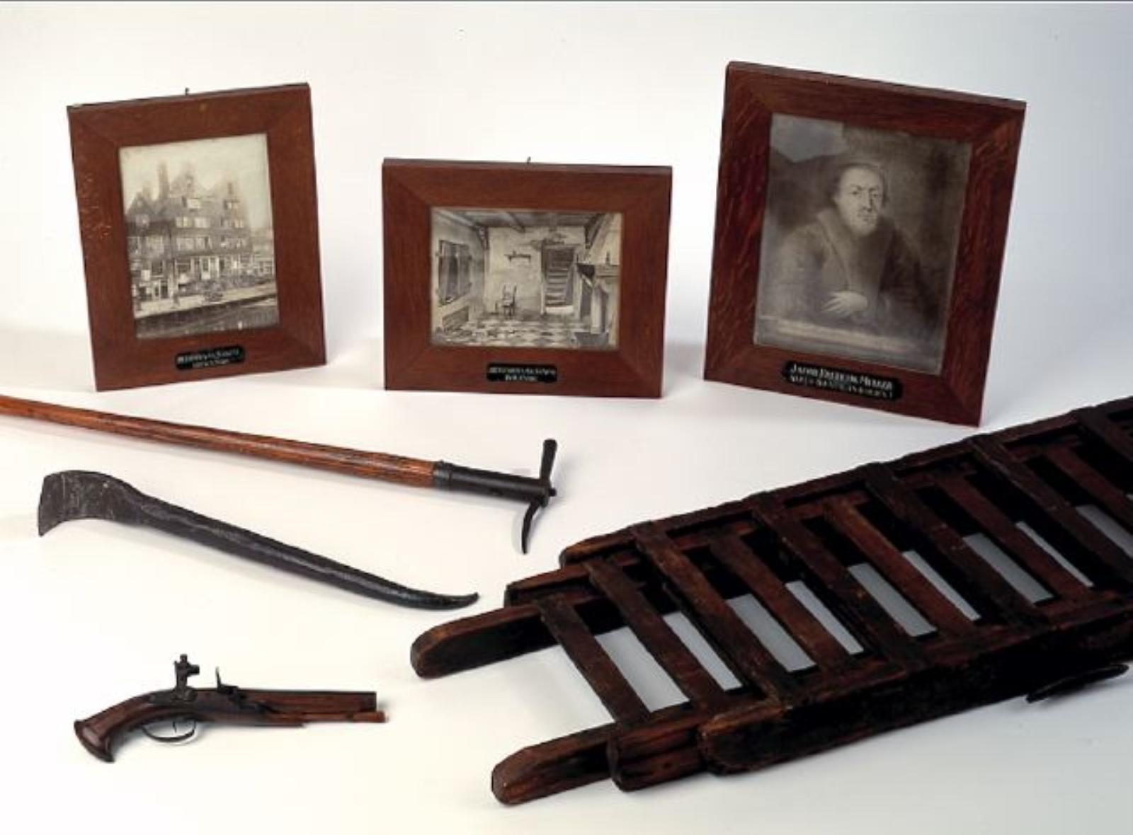 This is some of the equipment of the notorious burglar Jacob Frederik Muller (1690(?)–1718), alias Jaco or Sjakoo. On 6 August 1718 the criminal was tortured and broken on the wheel, after which he was beheaded. The articles that Jaco used for his burglaries were taken into custody by the sheriff when Jaco was arrested.